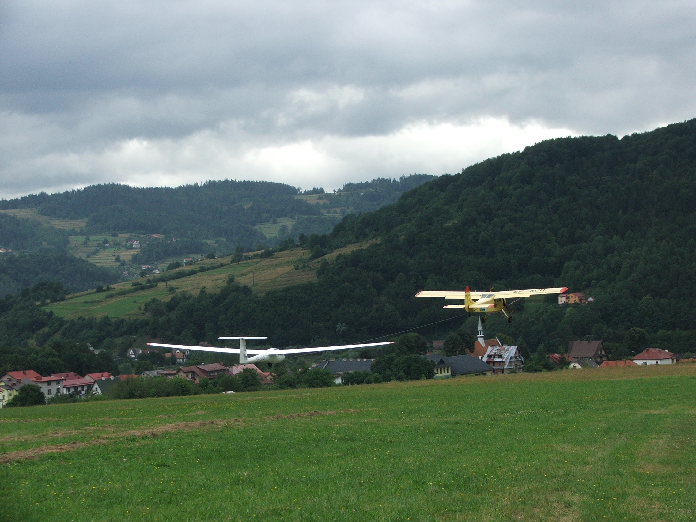 Polish Yakovlev Yak-12M (SP-ACD, no 200991) tows SZD-51-1 Junior (SP-3313) glider at Międzybrodzie Żywieckie